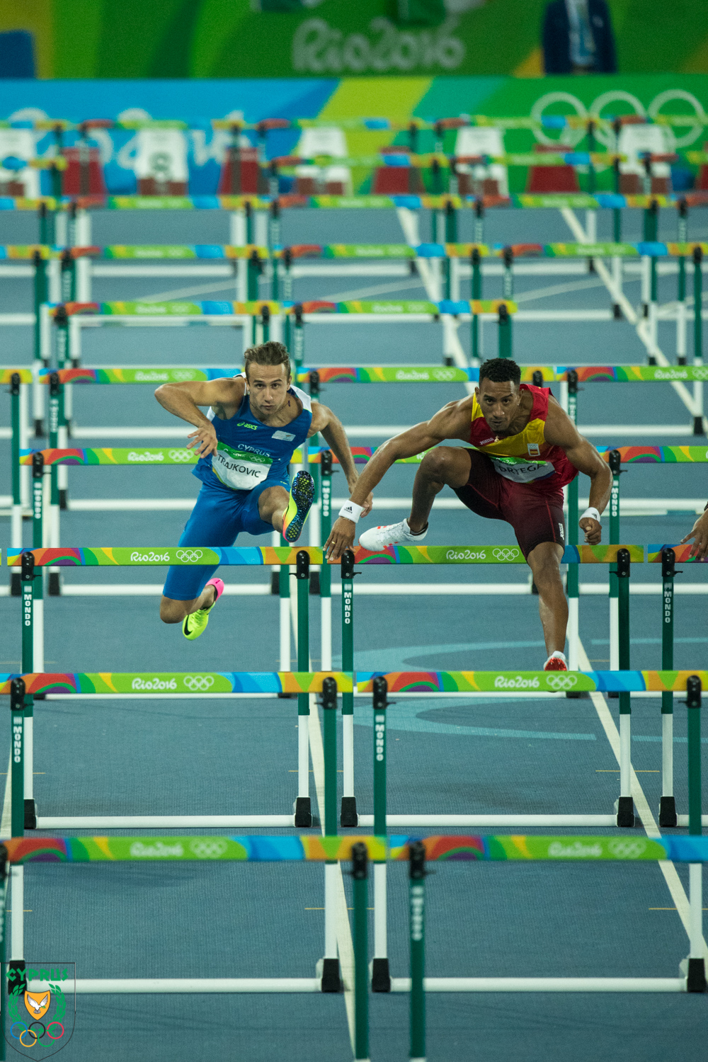 Image of Milan Trajkovic at the 2016 Olympic games 110m mens hurdles finals